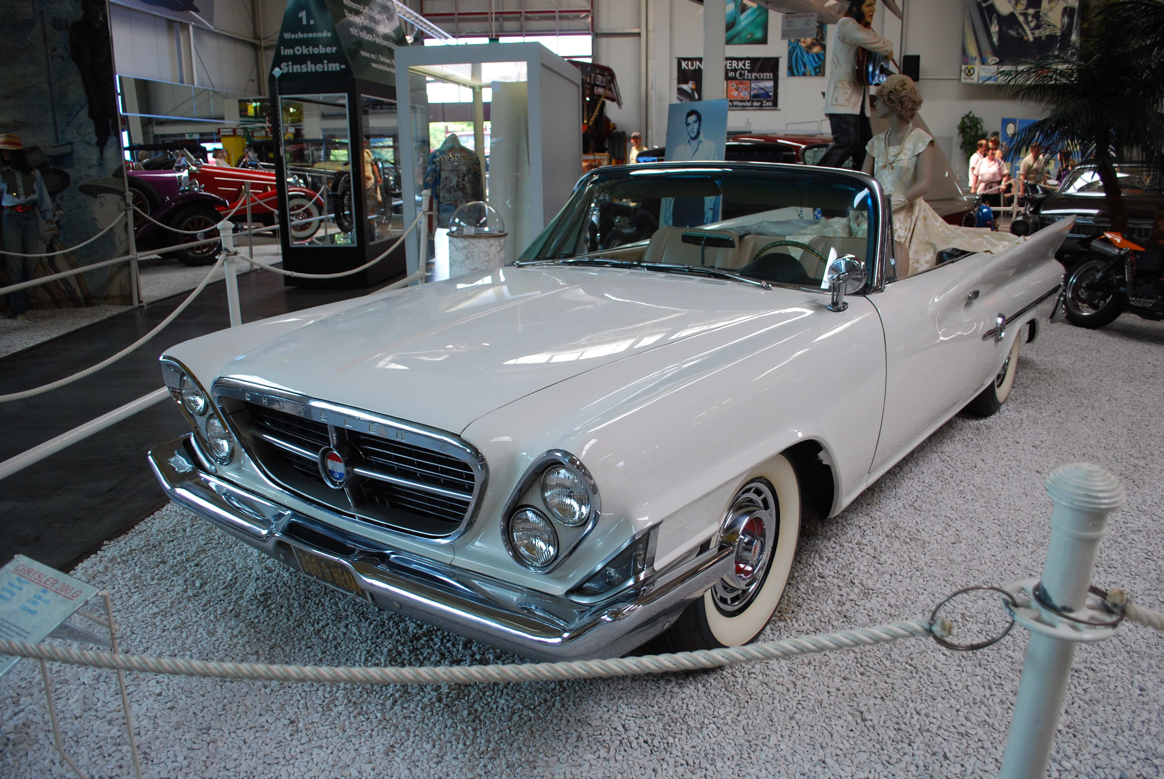 1961 Chrysler Convertible 300G at the Auto & Technik Museum, Sinsheim, 6/11.